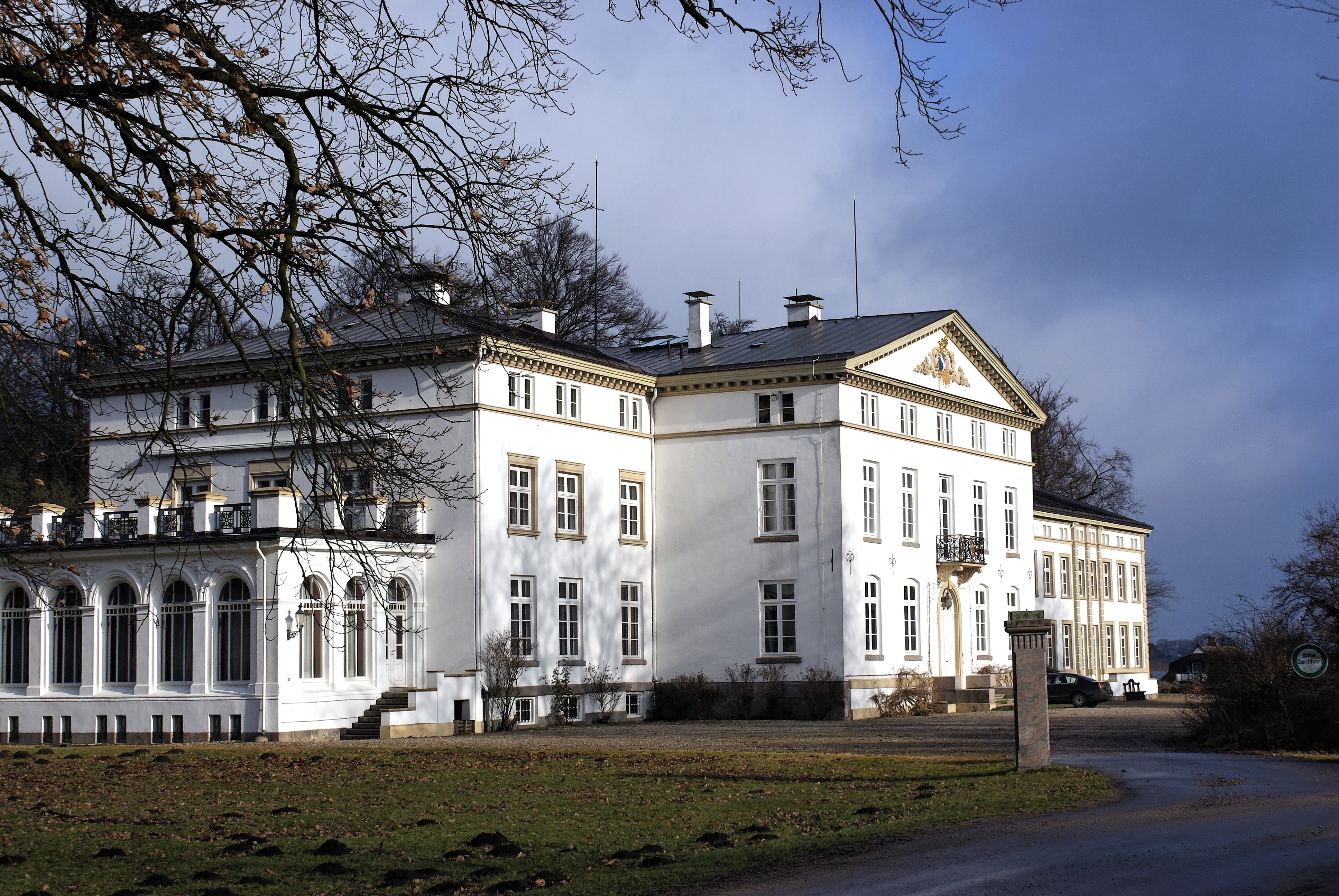 Waterneverstorf Manor